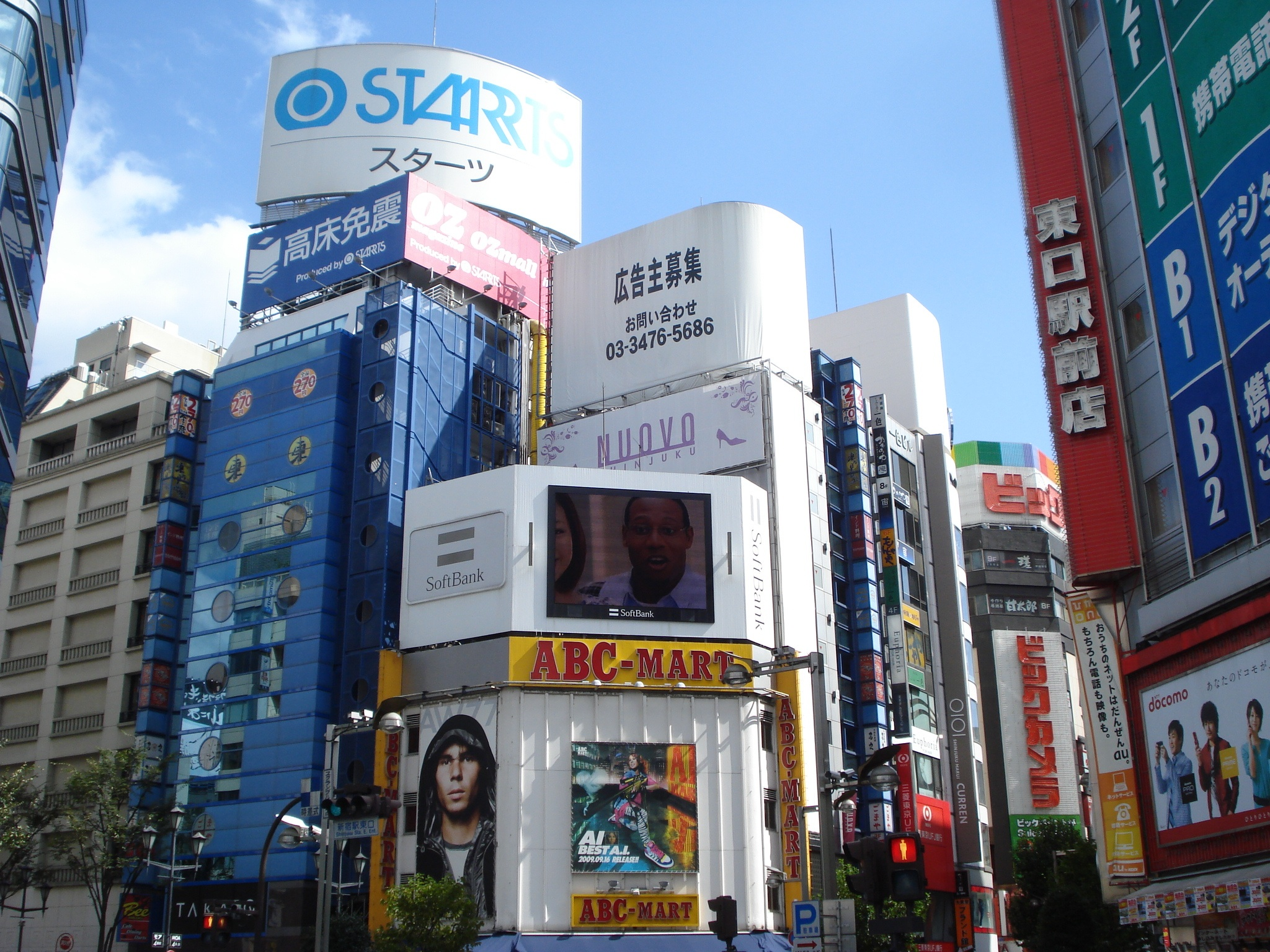 It is a major commercial and administrative center, housing the busiest train station in the world (Shinjuku Station), and the Tokyo Metropolitan Government Building, the administration center for the government of Tokyo.